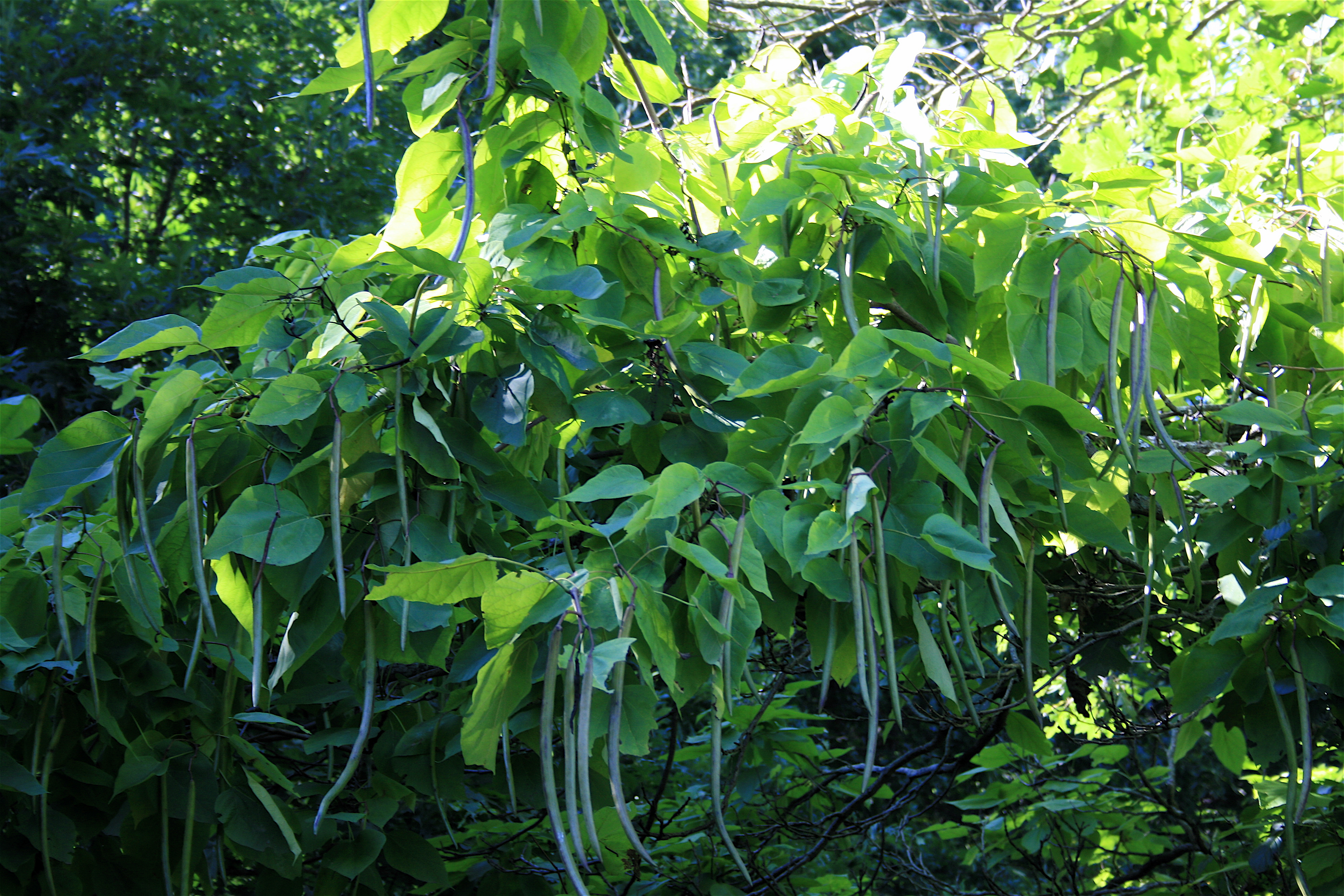 Northern Catalpa (Catalpa speciosa) at Fort Custer Recreation Area in Augusta, MI.